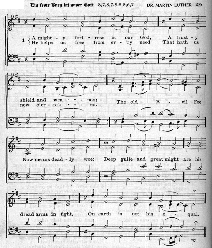 the rythmic tune of A Mighty Fortress